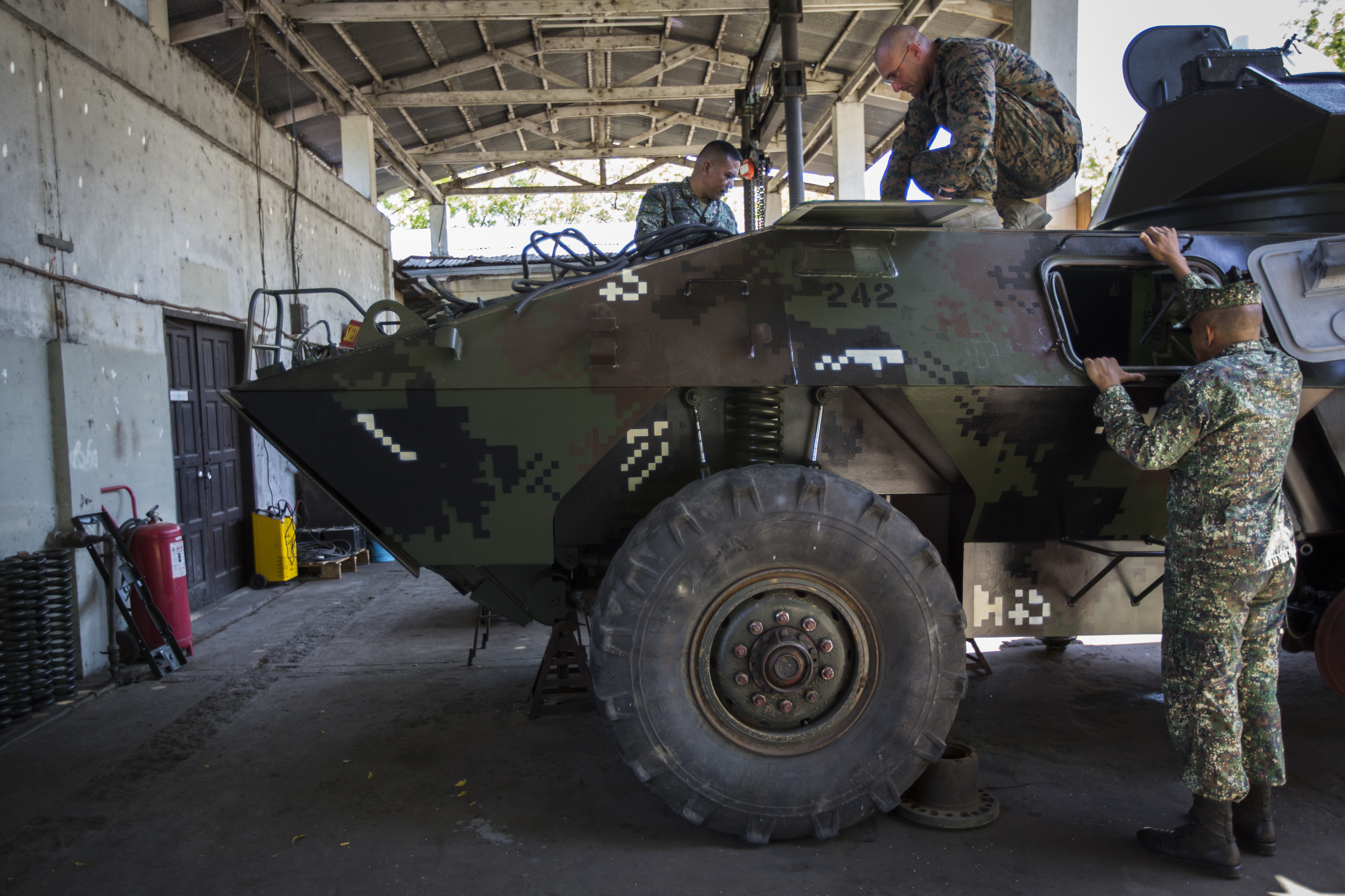 U.S. Marine Corps Staff Sgt. Jeremy Owens, amphibious assault vehicle mechanic with Echo Company, 3rd Assault Amphibian Battalion, 1st Marine Division, discusses maintenance procedures for an LAV-300 with Philippine Marines of Armor Assault Battalion, Combat Service Support Brigade, during the Philippine Marine Exchange Program aboard Marine Base Manila, Manila, Philippines, March 2, 2015. The Armed Forces of the Philippines and U.S. military have a longstanding relationship that contributes to regional security and stability and is deeply rooted in cooperation. (Official U.S. Marine Corps Photo by Sgt. Donald Holbert/ Released)